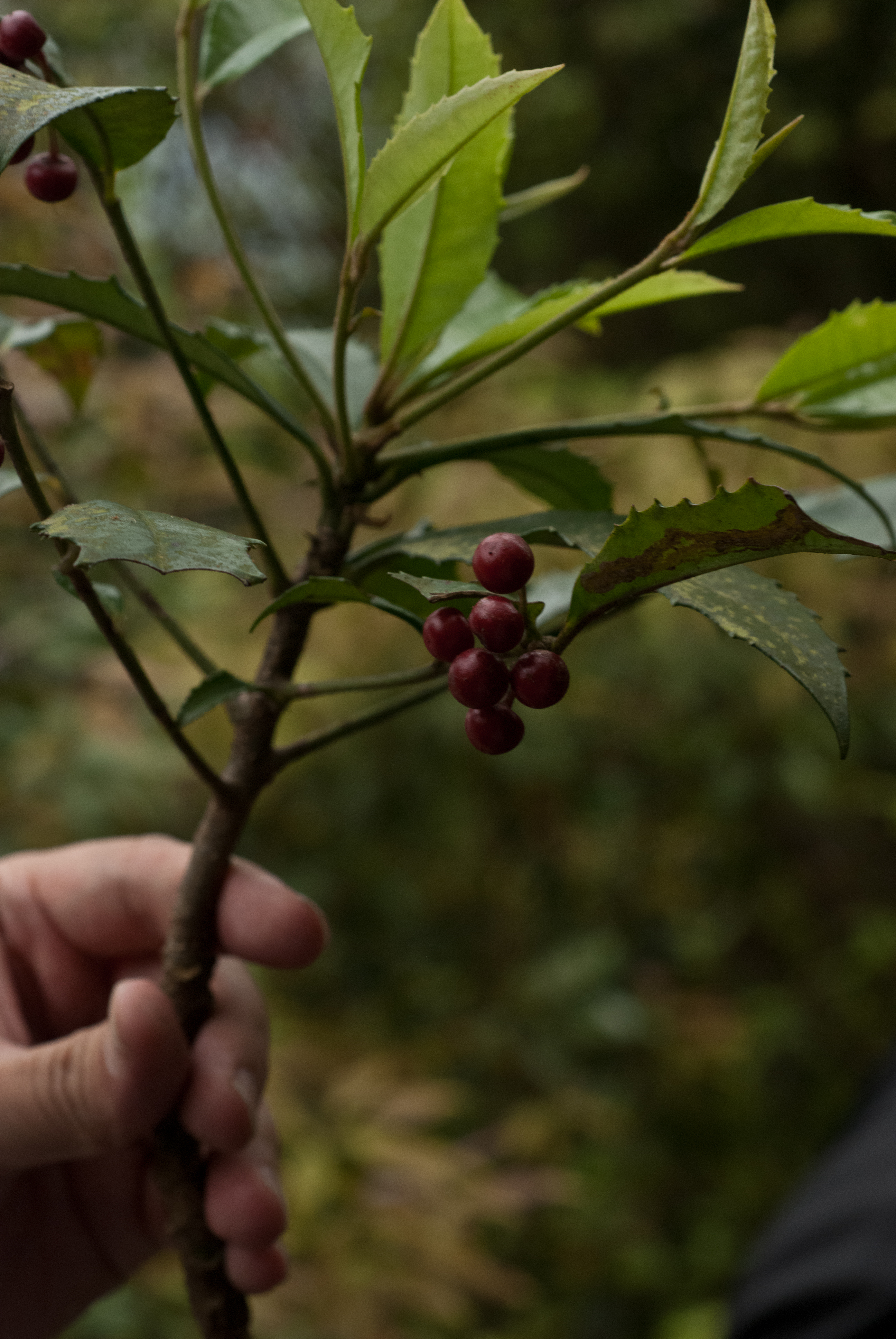 Ardisia cornudentata in Taiwan